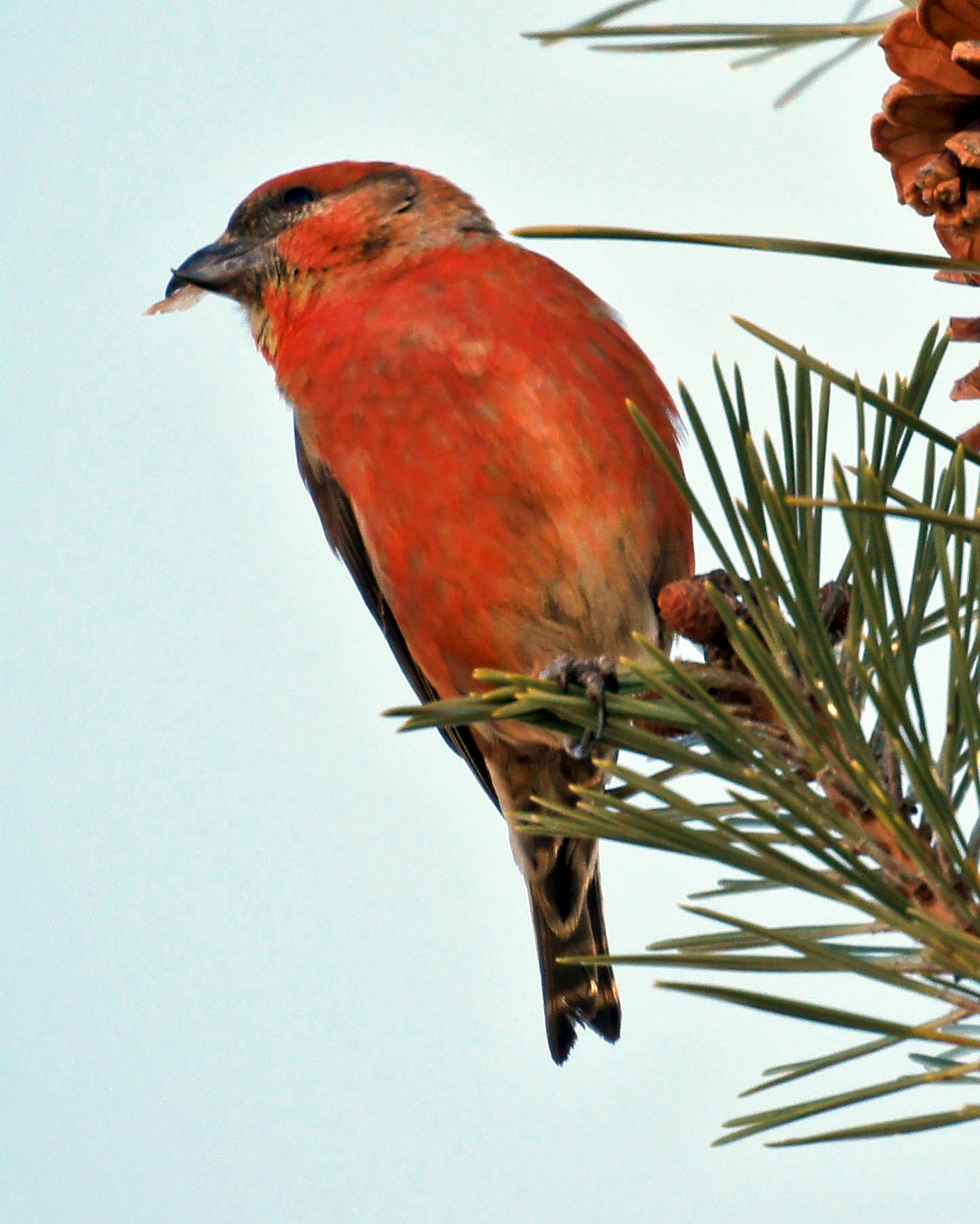 Red Crossbill